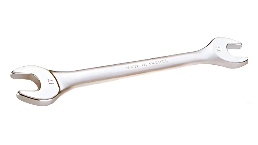 open-end spanner, open-end wrench, free wrench